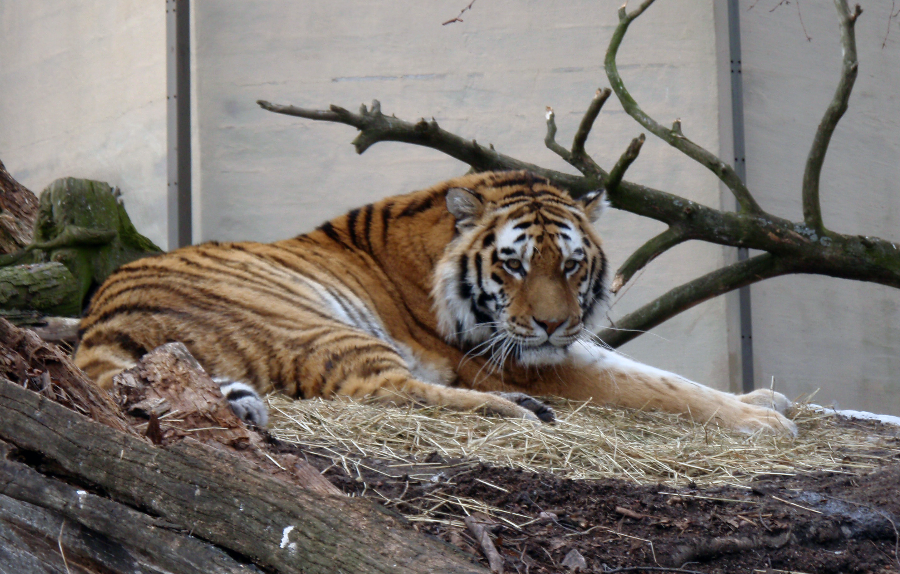 Amur tiger (Panthera tigris altaica) at Korkeasaari Zoo.